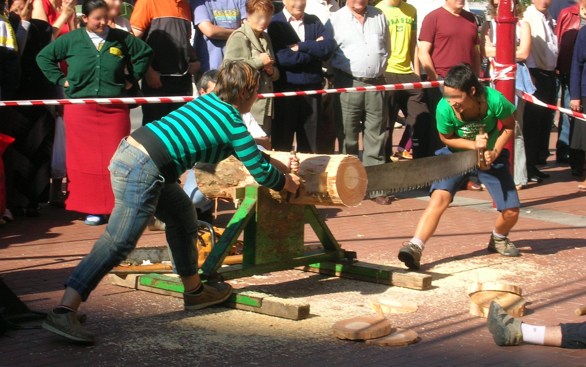 Dos chicas en una prueba de trontza (corte de troncos con sierra). Fiestas de Santa Teresa, Barakaldo. Nótese que no eran trontzalaris expertas, por lo que su postura puede no ser correcta.